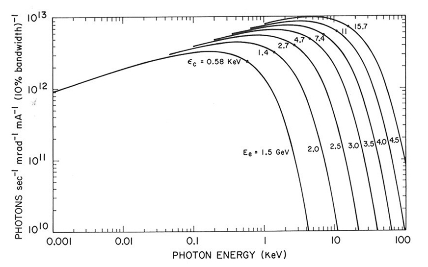 Syncrotron_radiation_emission_as_a_function_of_the_beam_energy.png